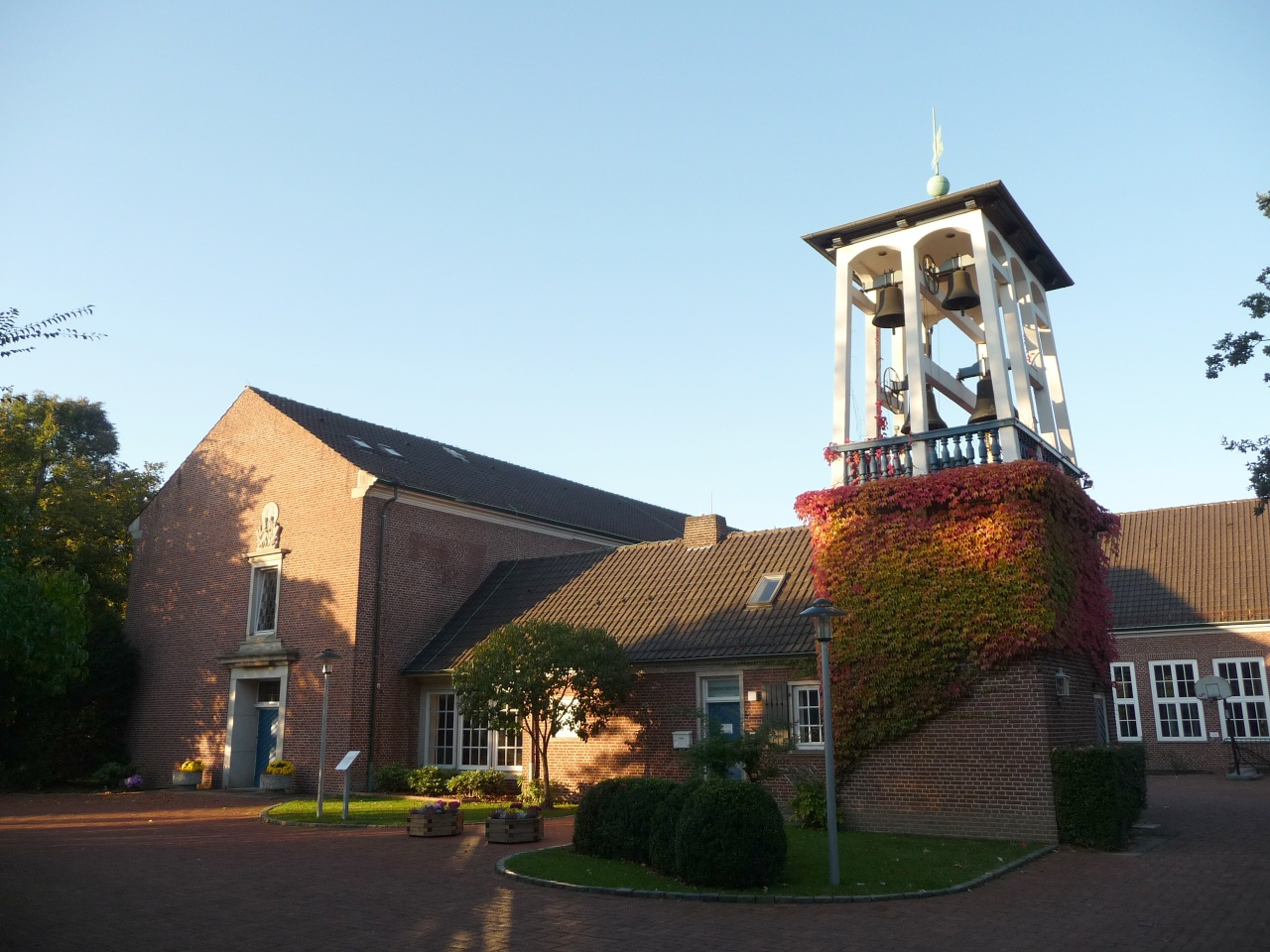 Church St. Markus in Bremen-Kattenturm